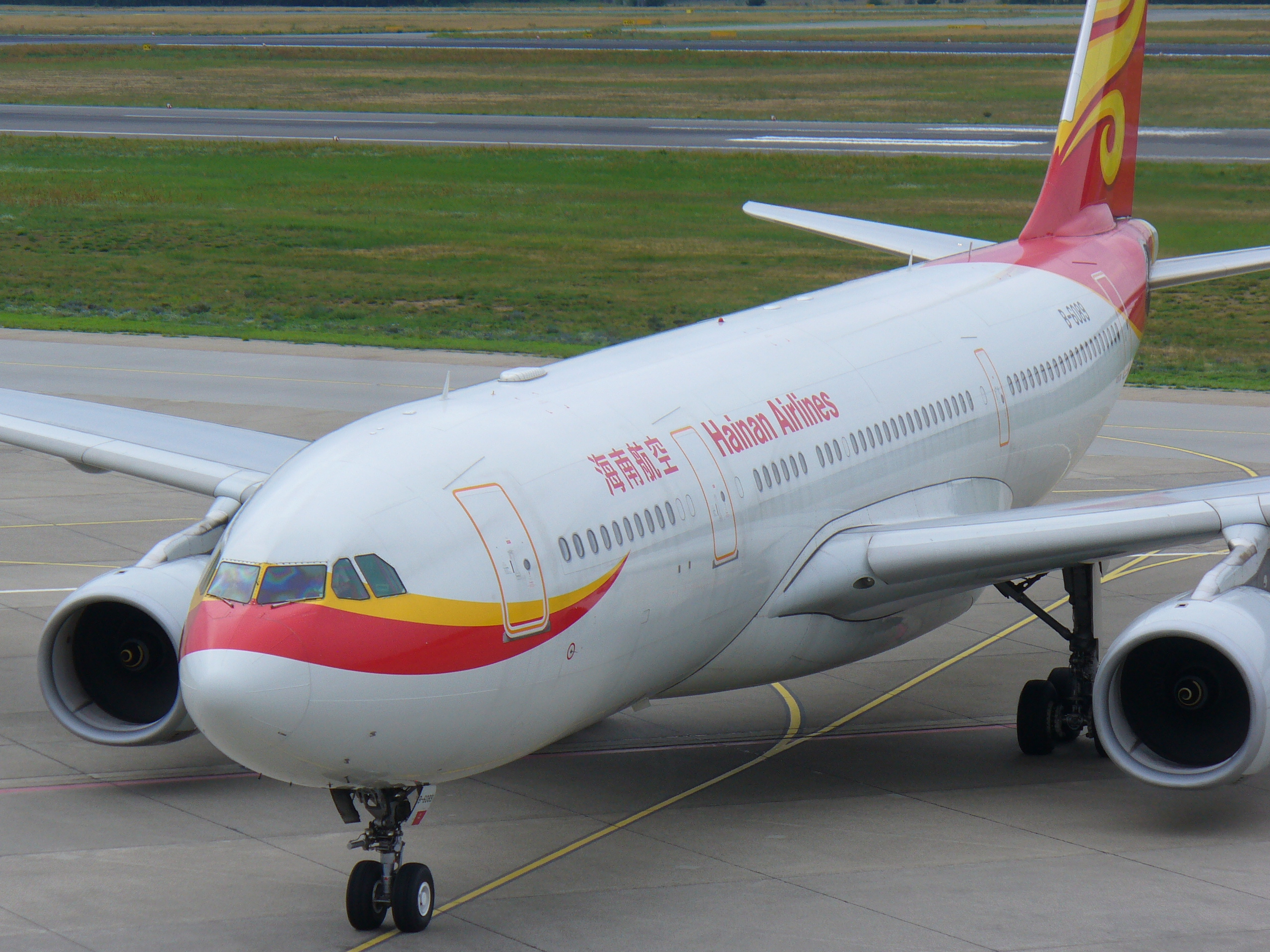 A Hainan Airlines Airbus A330-200 pulls into gate at Berlin Tegel Airport, completing a flight from Beijing.